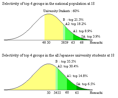 The statistic diagram which explains the selectivity of top 4 groups of Japanese universities